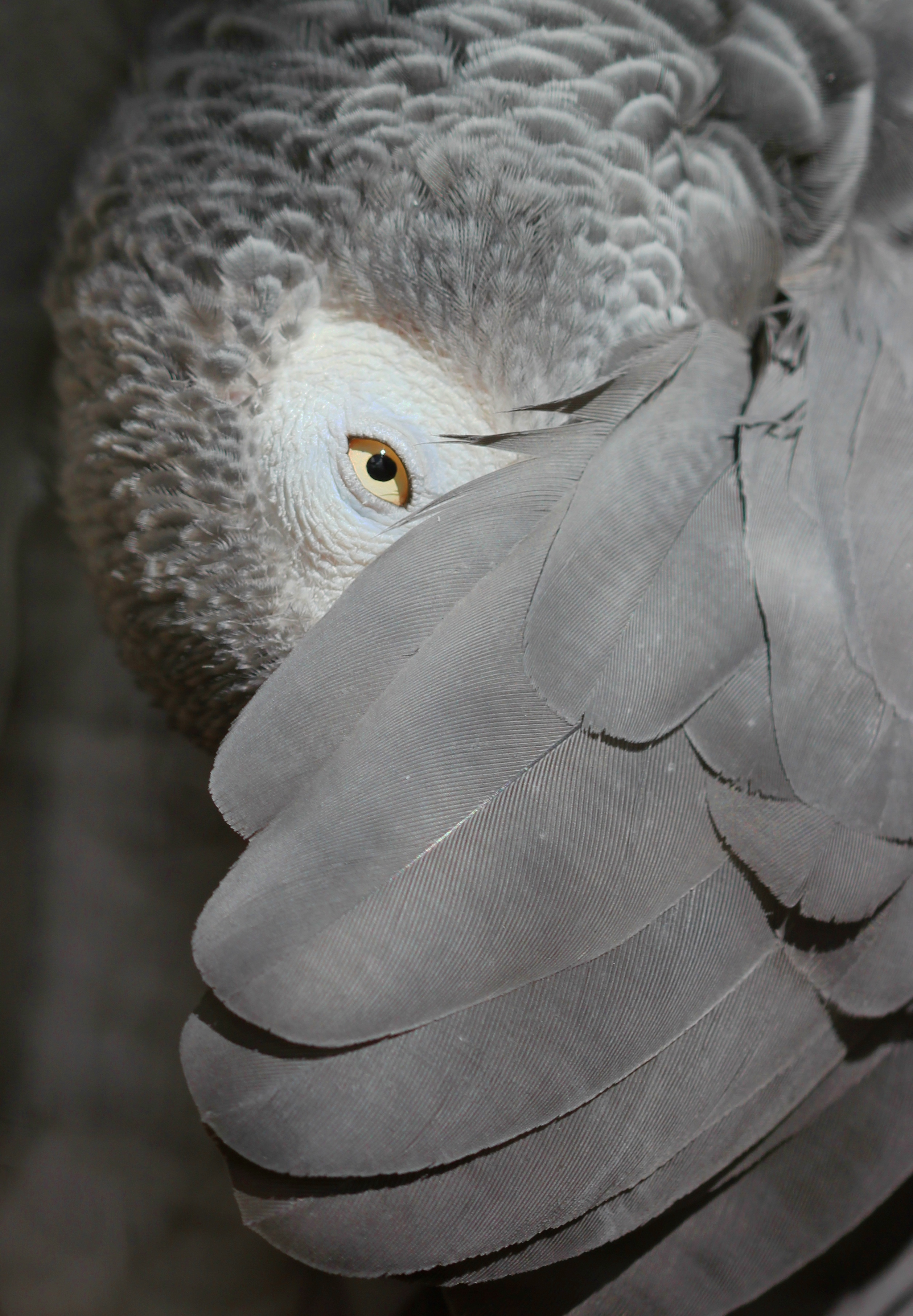 A preening Congo African Grey Parrot (Psittacus erithacus erithacus) peeks out from under its wing. Photo taken at Auckland Zoo.